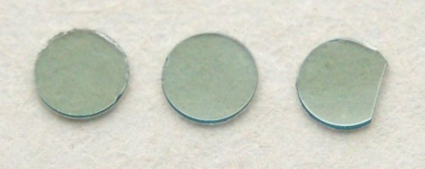 SiC crystals about ~3 mm in diameter